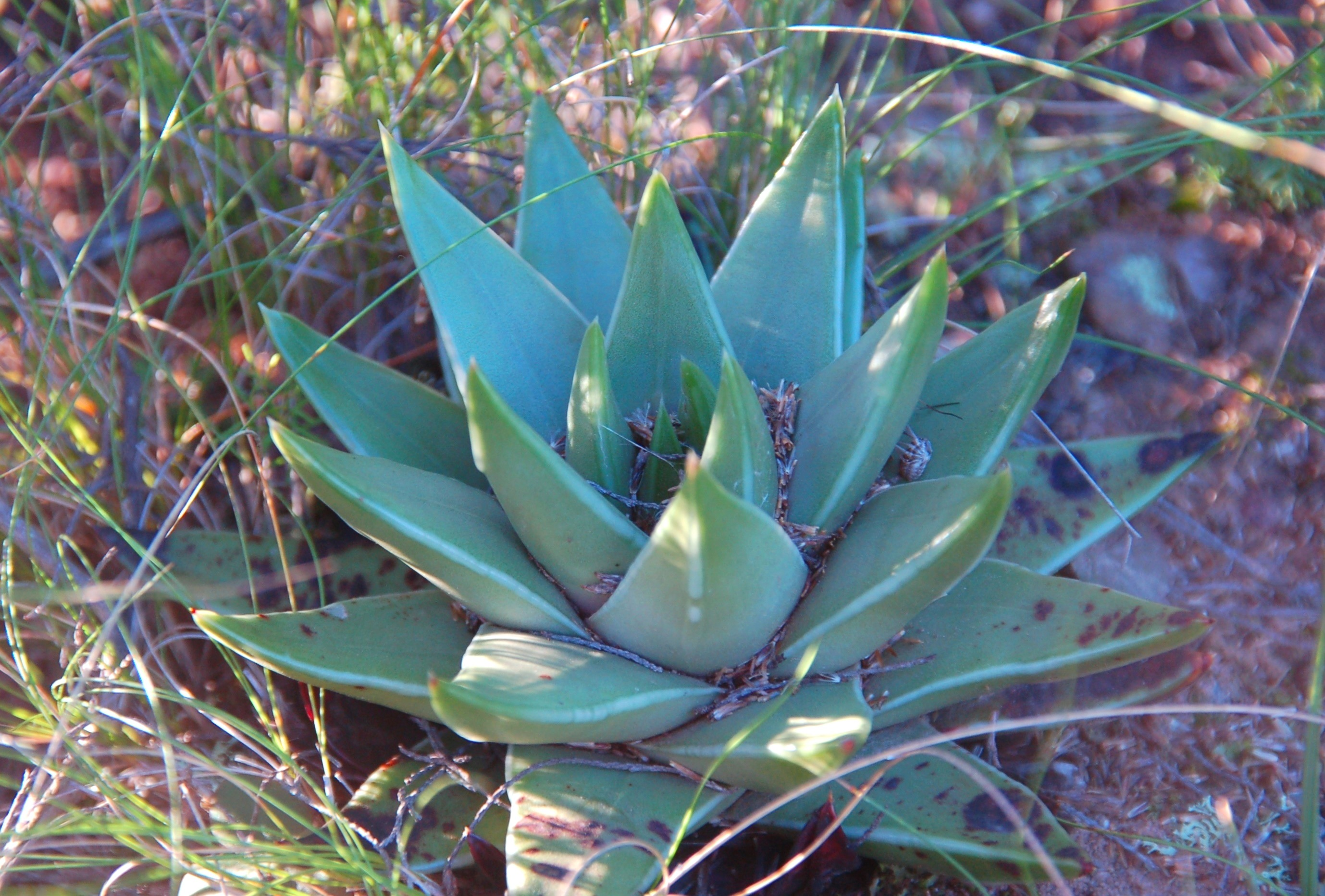 Haworthia marginata - Tulista marginata - ACilliers South Africa